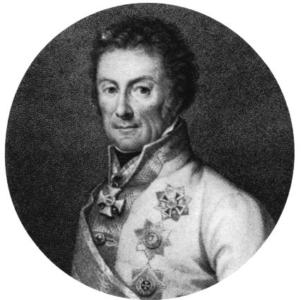 The imperial Austrian General of Cavalry Johann, Count von Klenau, Baron of Janowitz, 1758-1819)